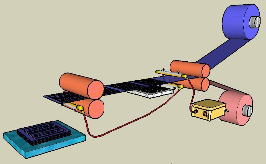 Electrostatic neutralization set - install draft